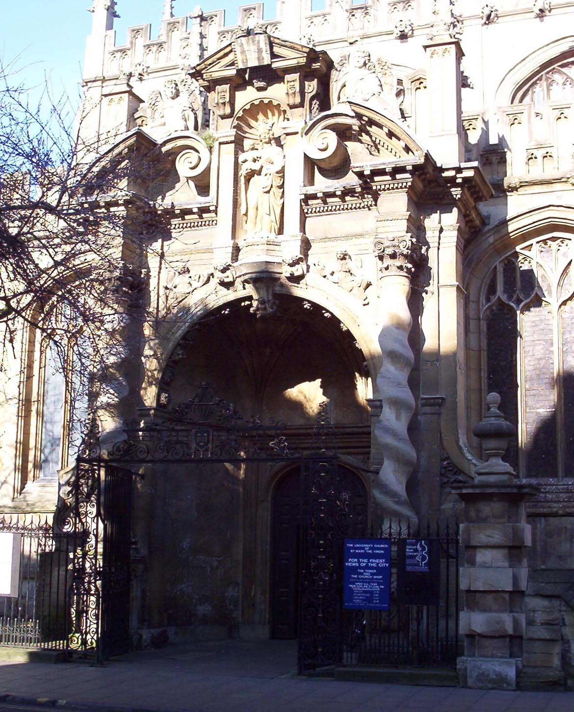 Photograph of the South porch of the University Church of St Mary Virgin, Oxford, as viewed from the High St. Photo by me. Architecture attributed to (1586/87 – 1647).